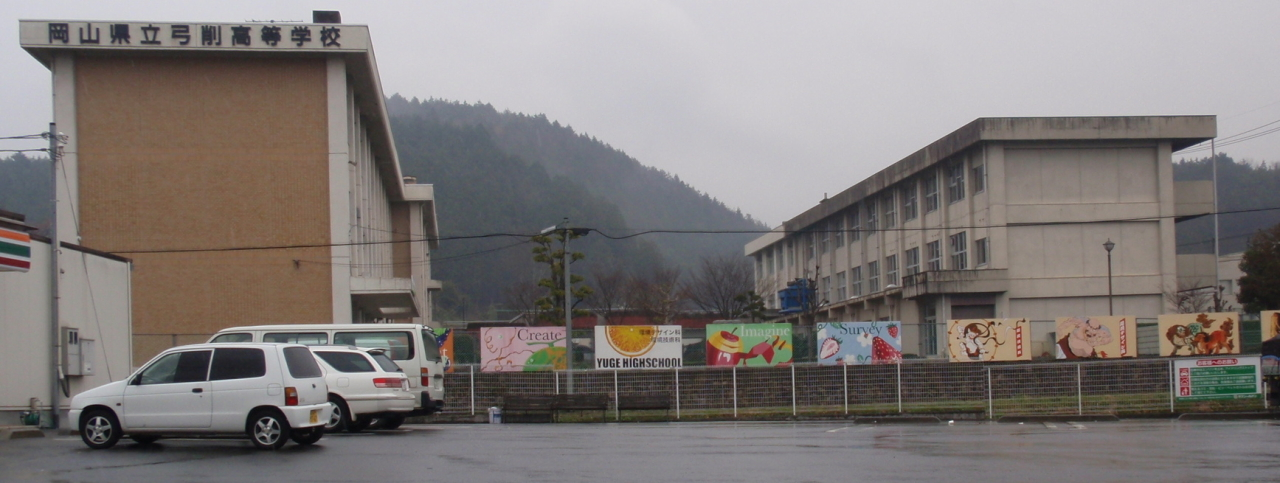 Yuge High School in 2008